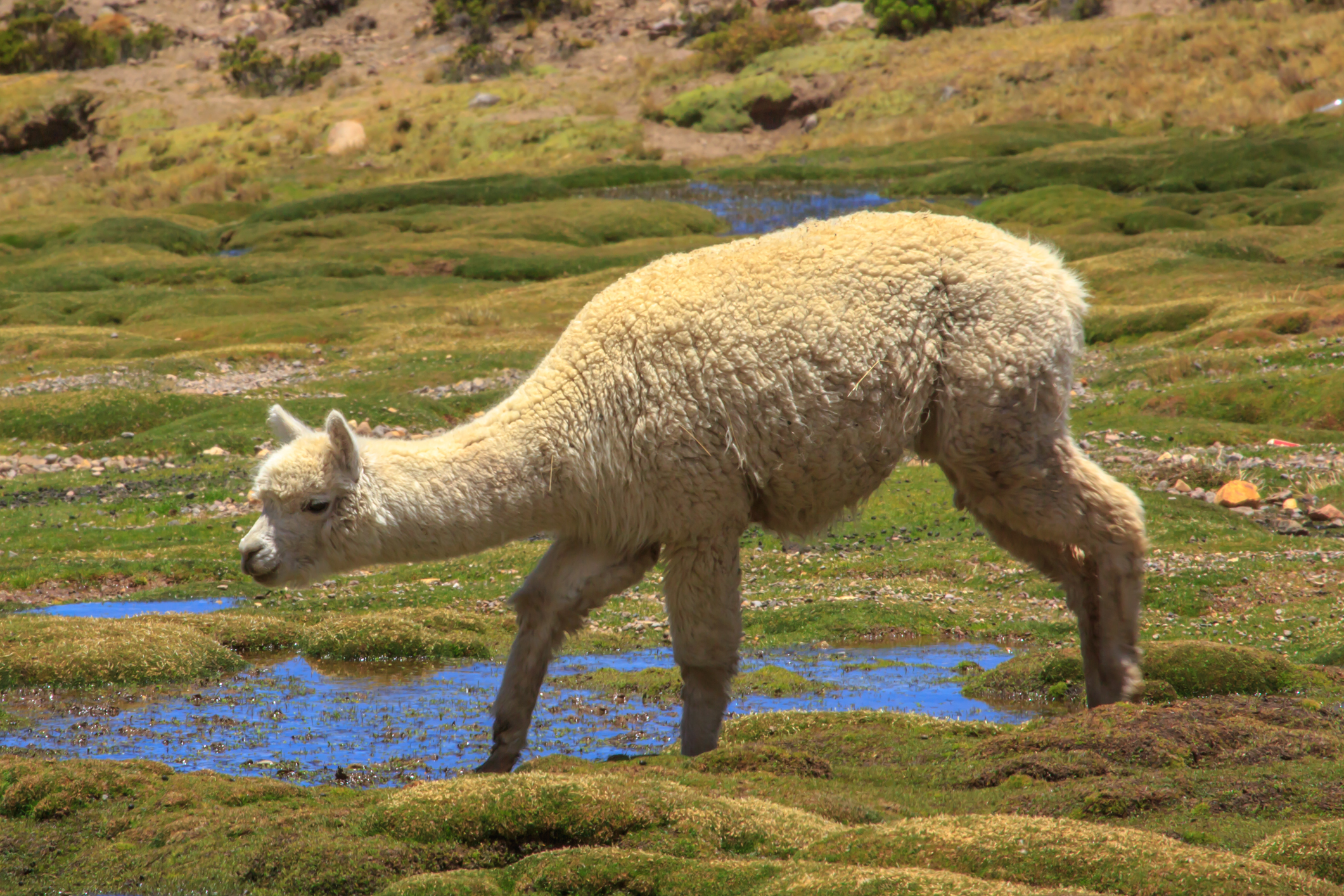 at Patahuasi way sation at 4100 m on the altiplano